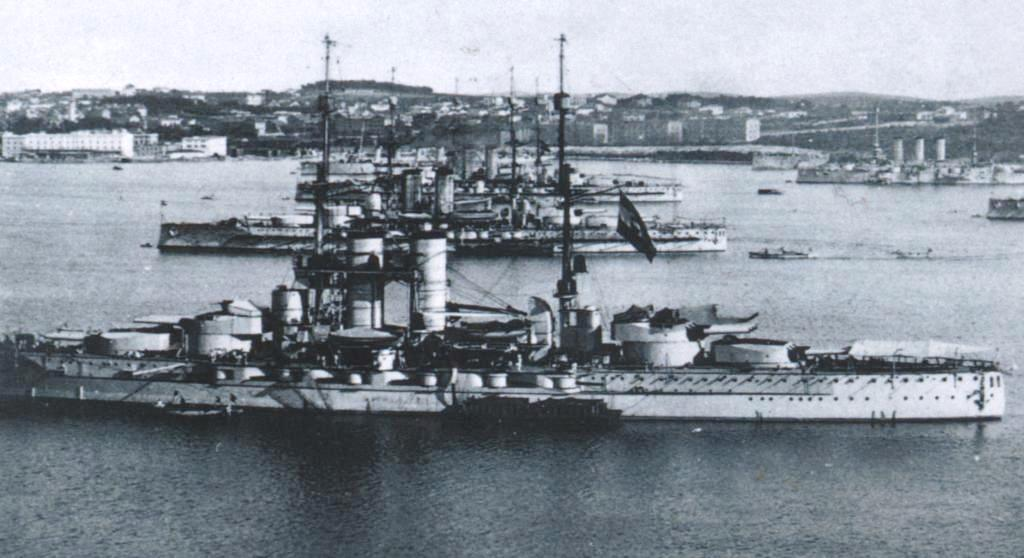 Tegetthoff class battleships in Pola in 1915. The ship in the front of the picture is the SMS Szent István